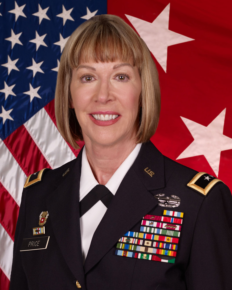 MG N. Lee S. Price